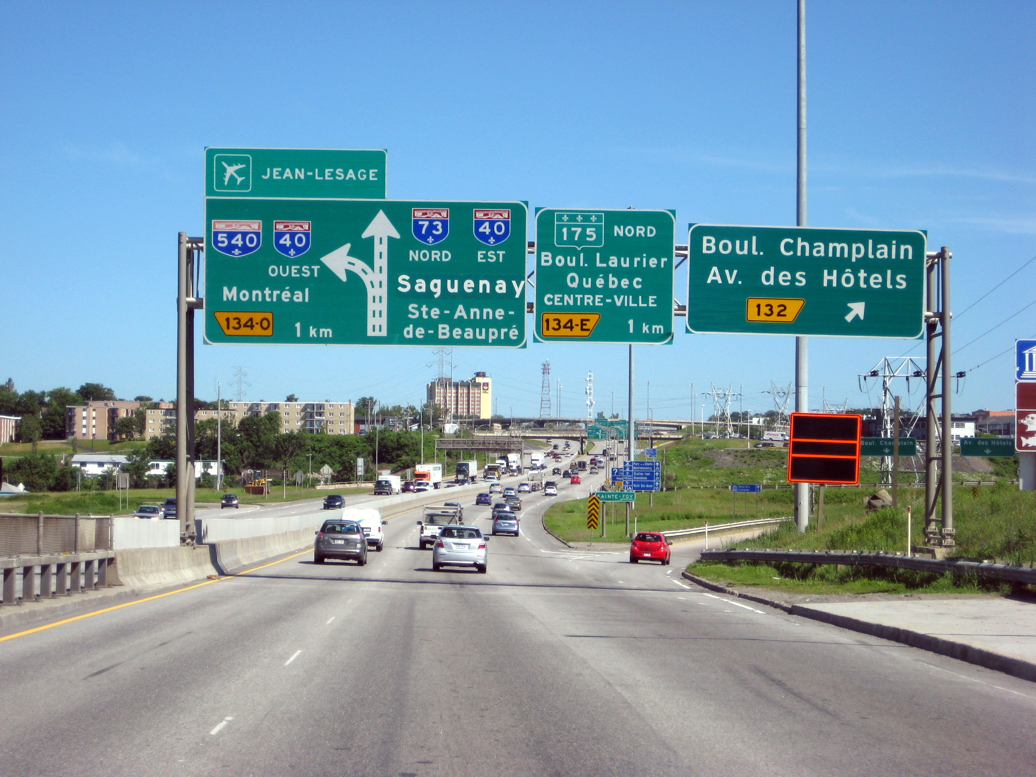 Autoroute 73 northbound, kilometre 133 in Quebec City just after crossing Saint-Laurent River on Pont Pierre-Laporte